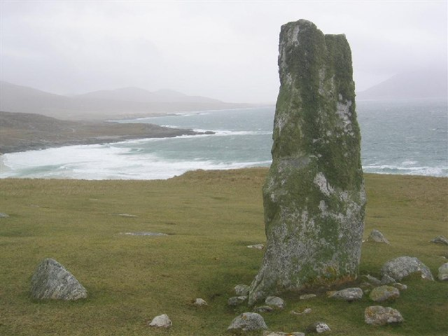 Clach Mhicleoid Standing Stone, South Harris. This stone stands on a windswept headland between Horgabost and Niosaboist bays. It stands over 3 metres high and is thought to possibly be a prehistoric astronomical marker, but no-one really knows.